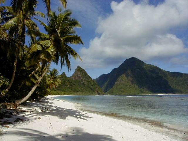 This picture is of a beach in American Samoa